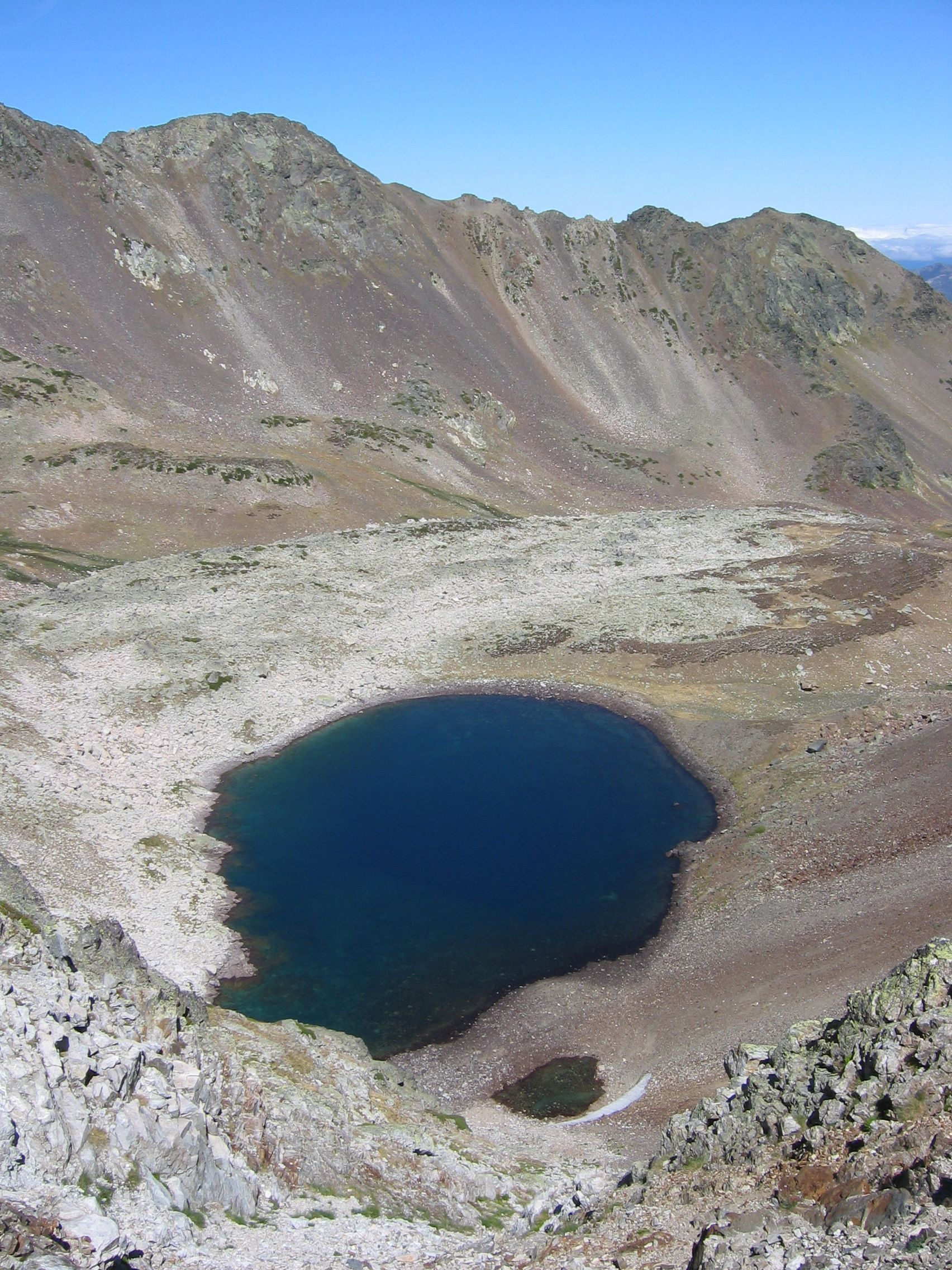 Lagoon of Fuentes Carrionas (Palencia, Castile and León)